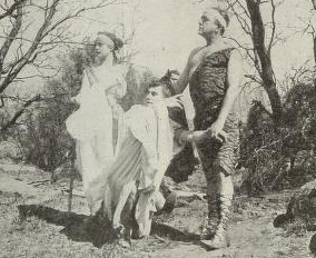 Scene from the prologue of the 1915 film, The Absentee.